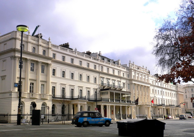 Belgrave Square The north side of Belgrave Square